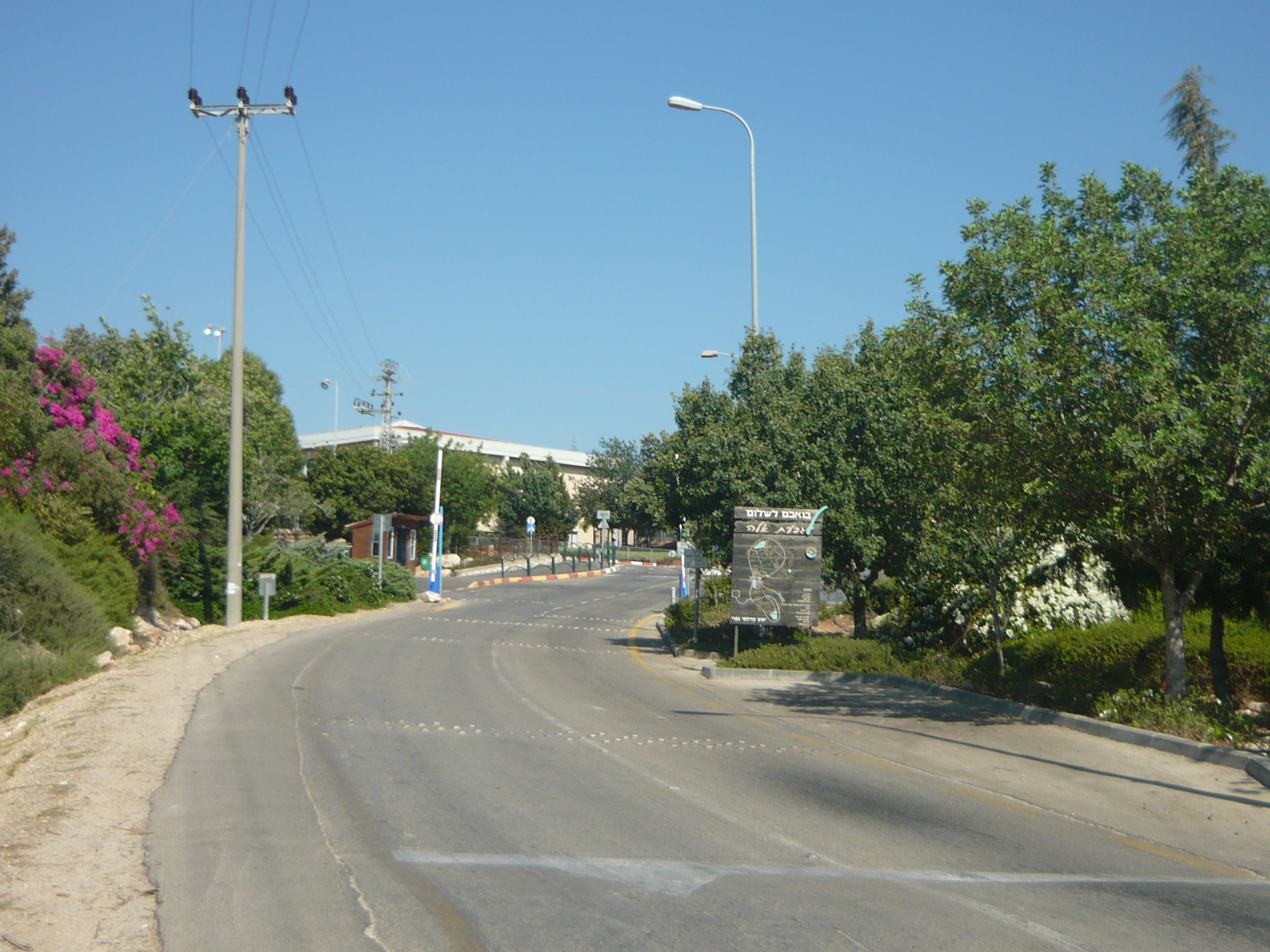 givat ela הכניסה לגבעת אלה